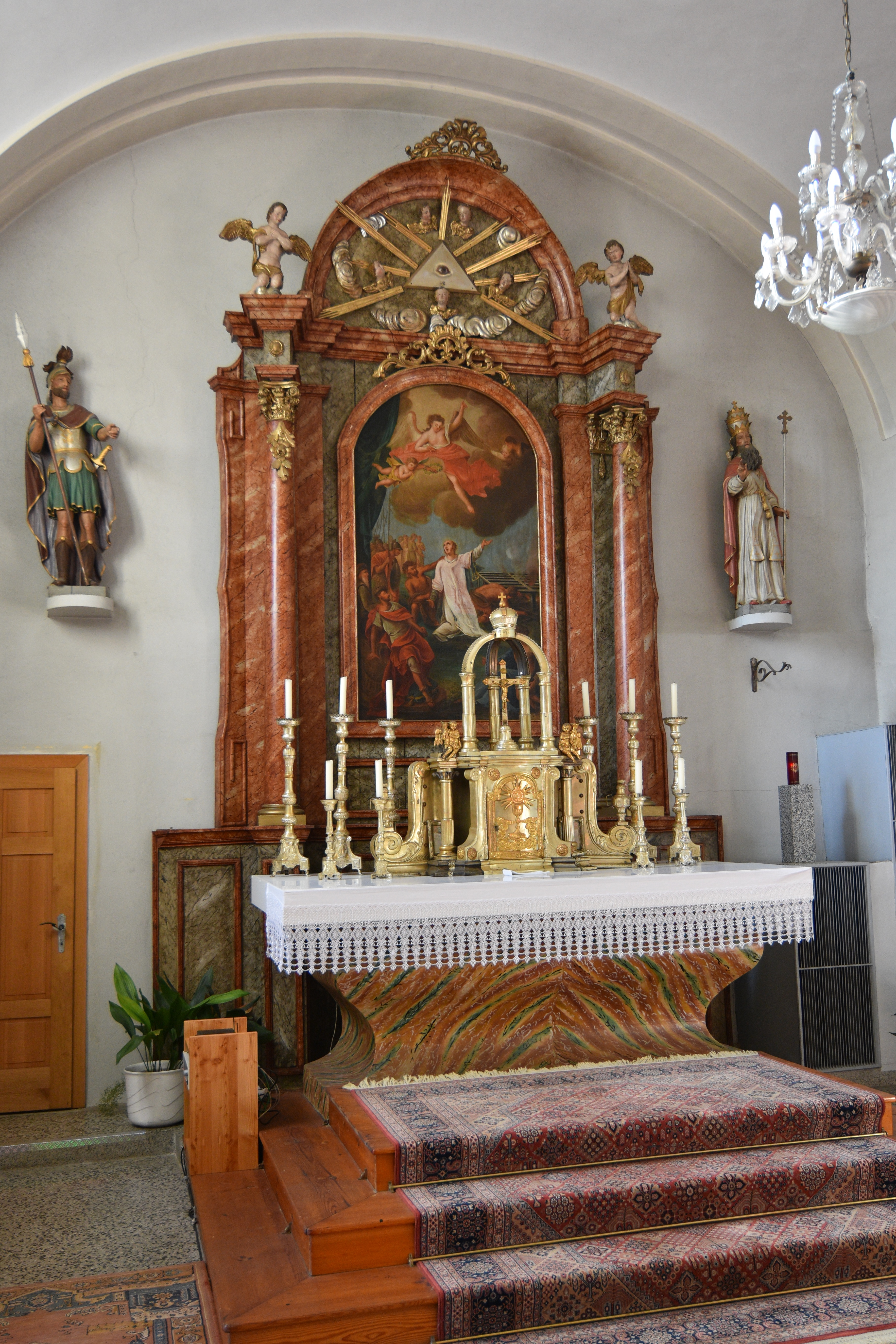 Church Olbendorf - Interior